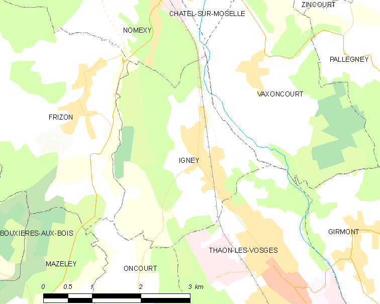 Map of French municipality Igney